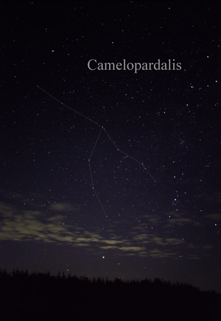 Photography of the constellation Camelopardalis, the girafe